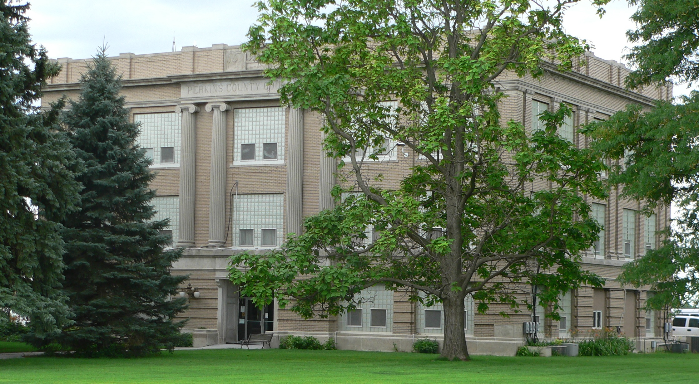 Perkins County Courthouse in Grant, Nebraska; seen from the northeast. The Classical Revival building was constructed in 1926. It is listed in the National Register of Historic Places.